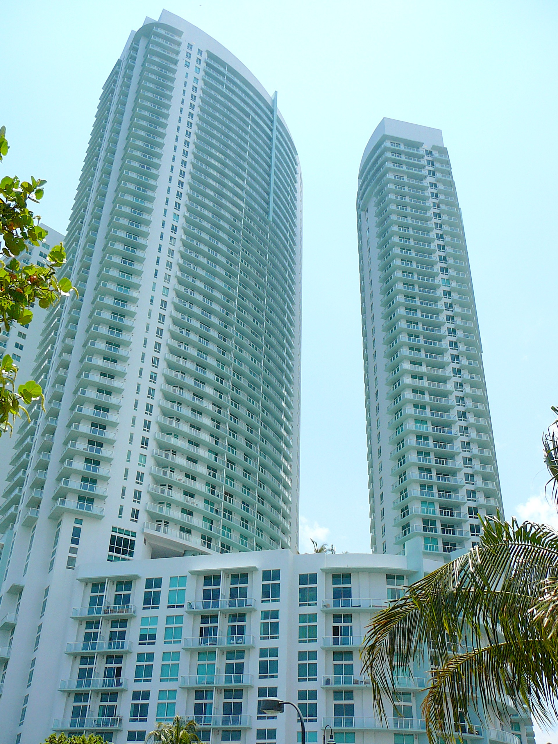 Digital photo taken by Marc Averette. View of the Quantum on the Bay condominium in downtown Miami, FL. 5/10/2008